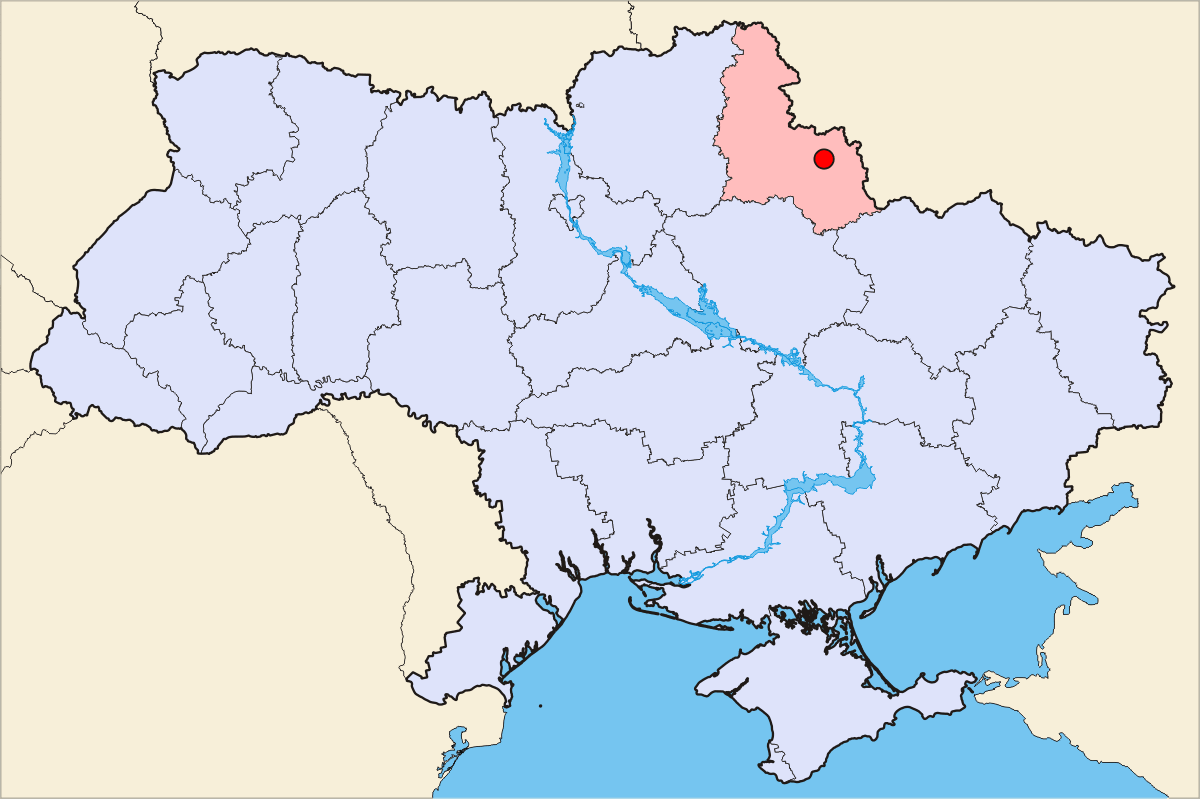 Description = Sumy geographical position Source = own work, Skluesener Date = 15.01.2006 Author = Skluesener Credits = Colours chosen according to a map of steschke